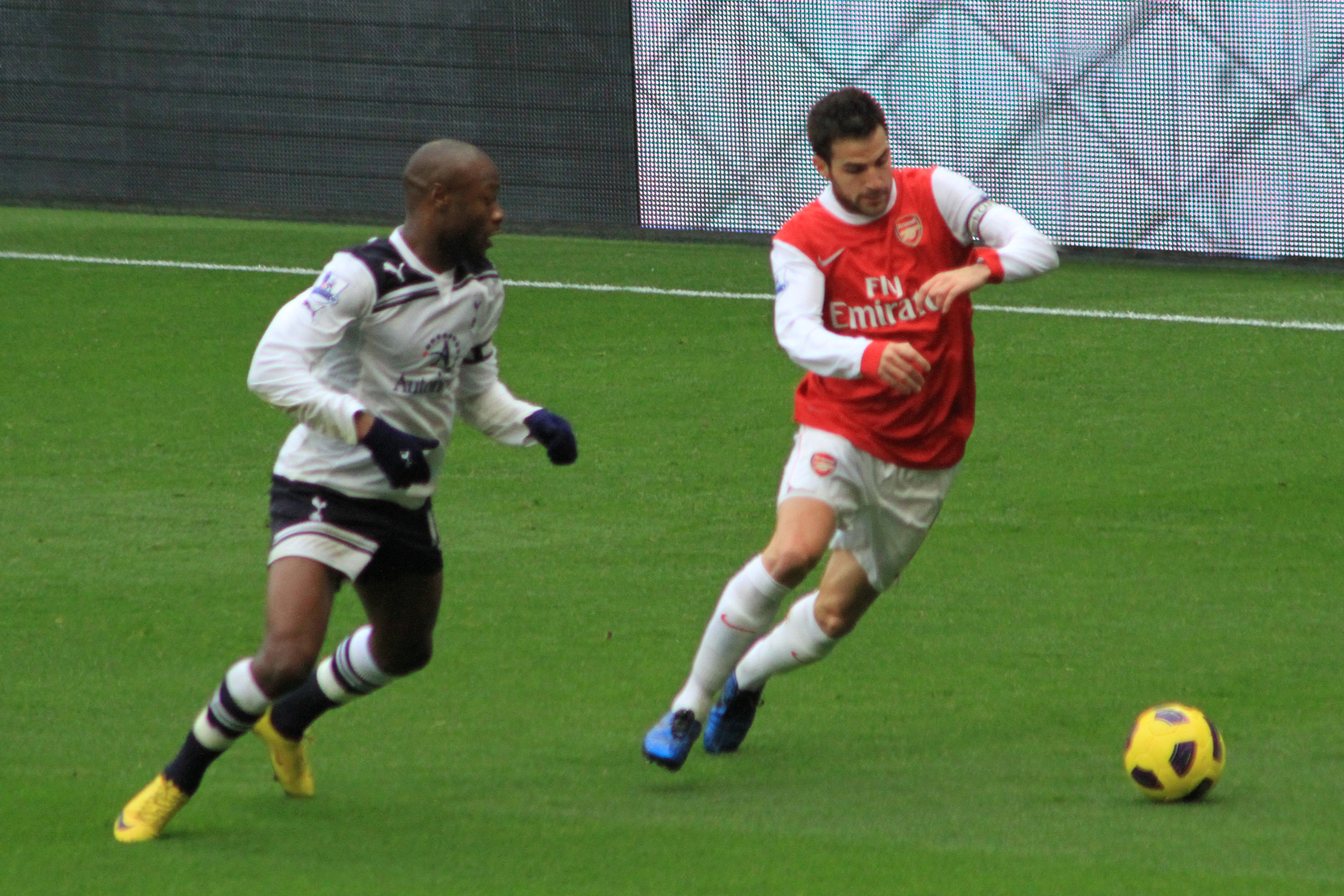 William Gallas of Tottenham defends Cesc Fabregas of Arsenal.